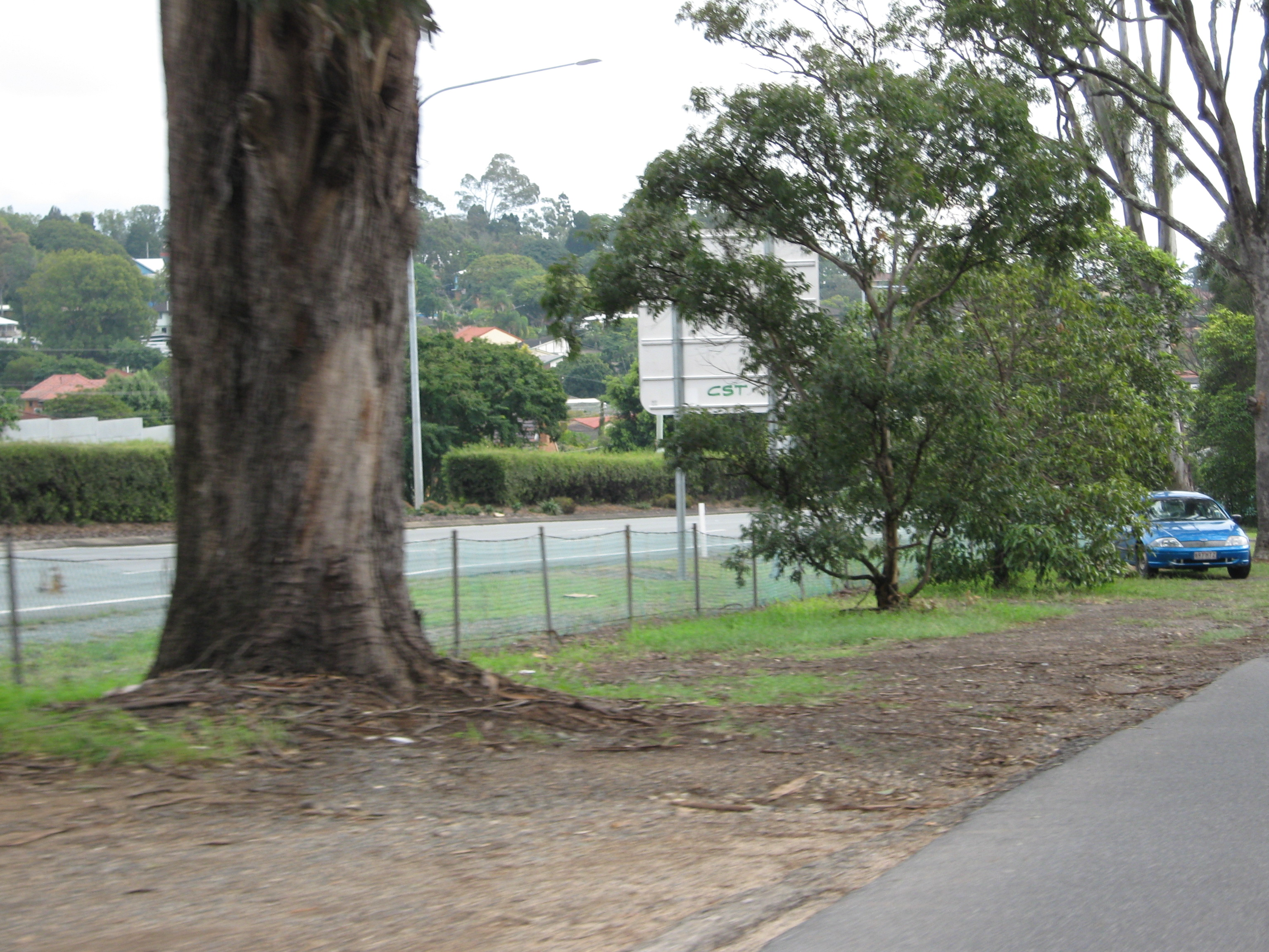 View of Gympie Road, Aspley, Queensland